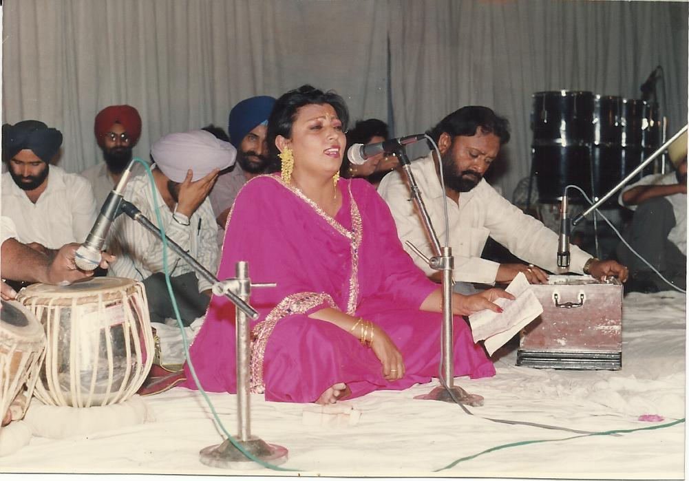 panjabi singer